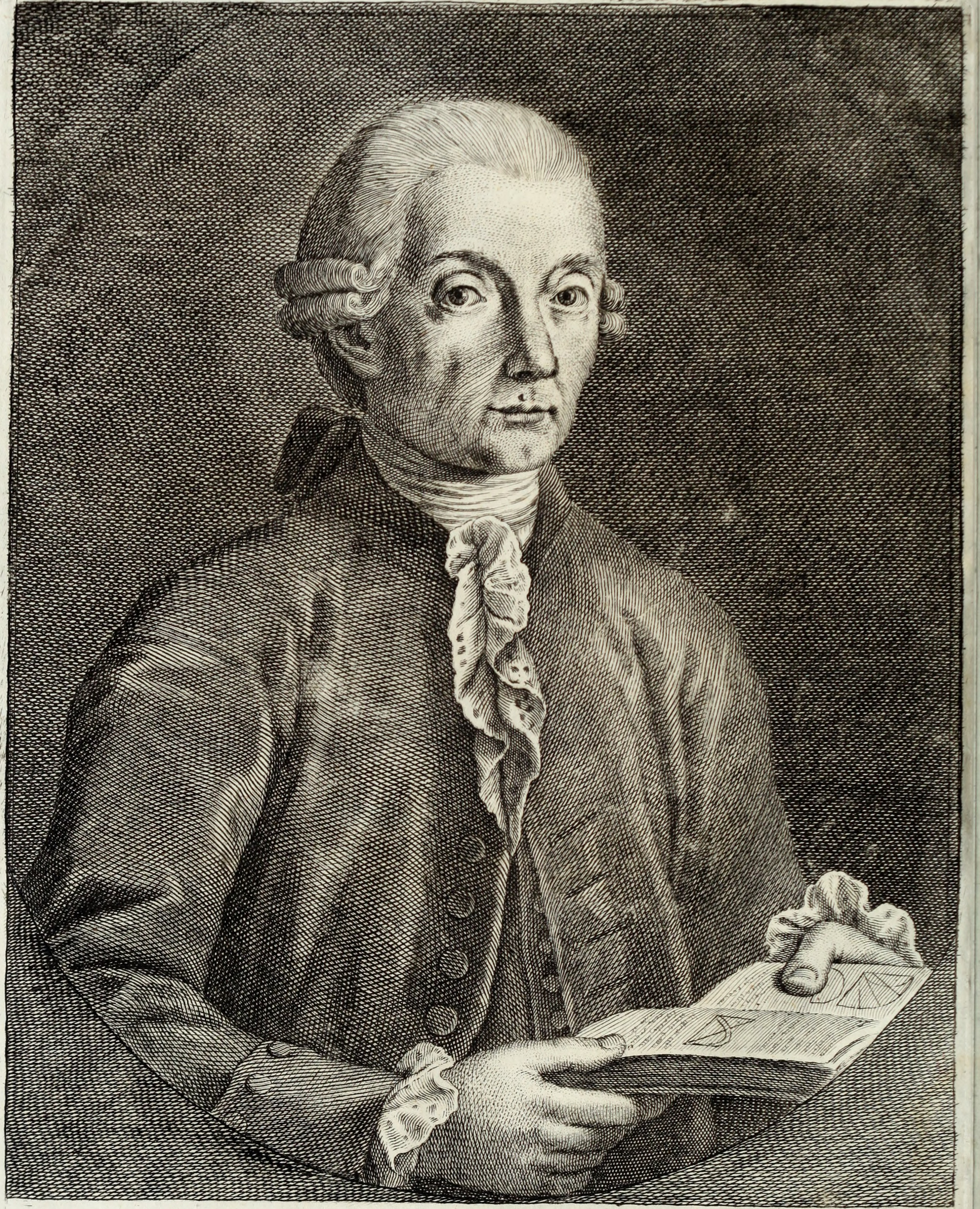 Title: Commentario sopra la vita e gli studj del conte Giordano Riccati... ad illustrazione dell'elogio funebre recitato nelle solenni esequie a lui celebrate in Trivigi Year: 1790 (1790s) Authors: Federici, Domenico Maria, 1739-1808 Coleti, Sebastiano, printer Cavagna Sangiuliani di Gualdana, Antonio, conte, 1843-1913, former owner. IU-R Subjects: Riccati, Giordano, conte, 1709-1790 Nobility Funeral orations Elegiac poetry Epitaphs Publisher: In Vinegia : Nella stamperia Coleti Text Appearing Before Image: cuna contro la Santa Fede Cattolica, e pa-rimente per atteftato dei Segretario Noftro, niente controPrincipi , e buoni coftumi , concediamo licenza a SebaftianoColeti Stampator di Venezia , che poffa e(Tere ftampato , offer-vando gli ordini in materia di Stampe , e prefentando le fo-iiteLCopie alle Pubbliche Librerie di Venezia, e di Padova. Dat. li \6, Dicembre 1790» ( ^Andrea Querinì Rif. ( Francefco Moro/ini Kav. Proc, Rif. Regiftrato in Libro a Carte 413, ai Num. 3195. Marcantonio Sanfermo Segr, Adi 28. Dicembre 1790. Regiftrato a Carte 159. nel Libro deglUlullr. ed Ec-cellentifs. Sig« Efecutori contro la Beftemmia. Giannantonic Maria C off ali JSJod. * , UNIVERSITY OF ILLINOIS-URBANAB.R4891 F C001Commentarlo sopra la vita e gli studi de 3 0112 089345836 Text Appearing After Image: COMES JORDANUS RICCATUS COMMENTARIO Sopra la Vita e gli Studj DEL CONTE GIORDANO RICCATI Nobile Trivigiano \Àà lllujlr azione dell Elogio Funebre recitato nelle folcirmiEfeqtiie a lui celebrate in TriDigi.commentariosopra00fede